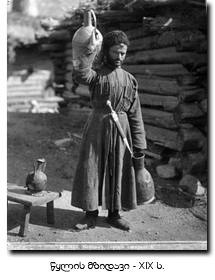 An Azeri water druuger from Georgia